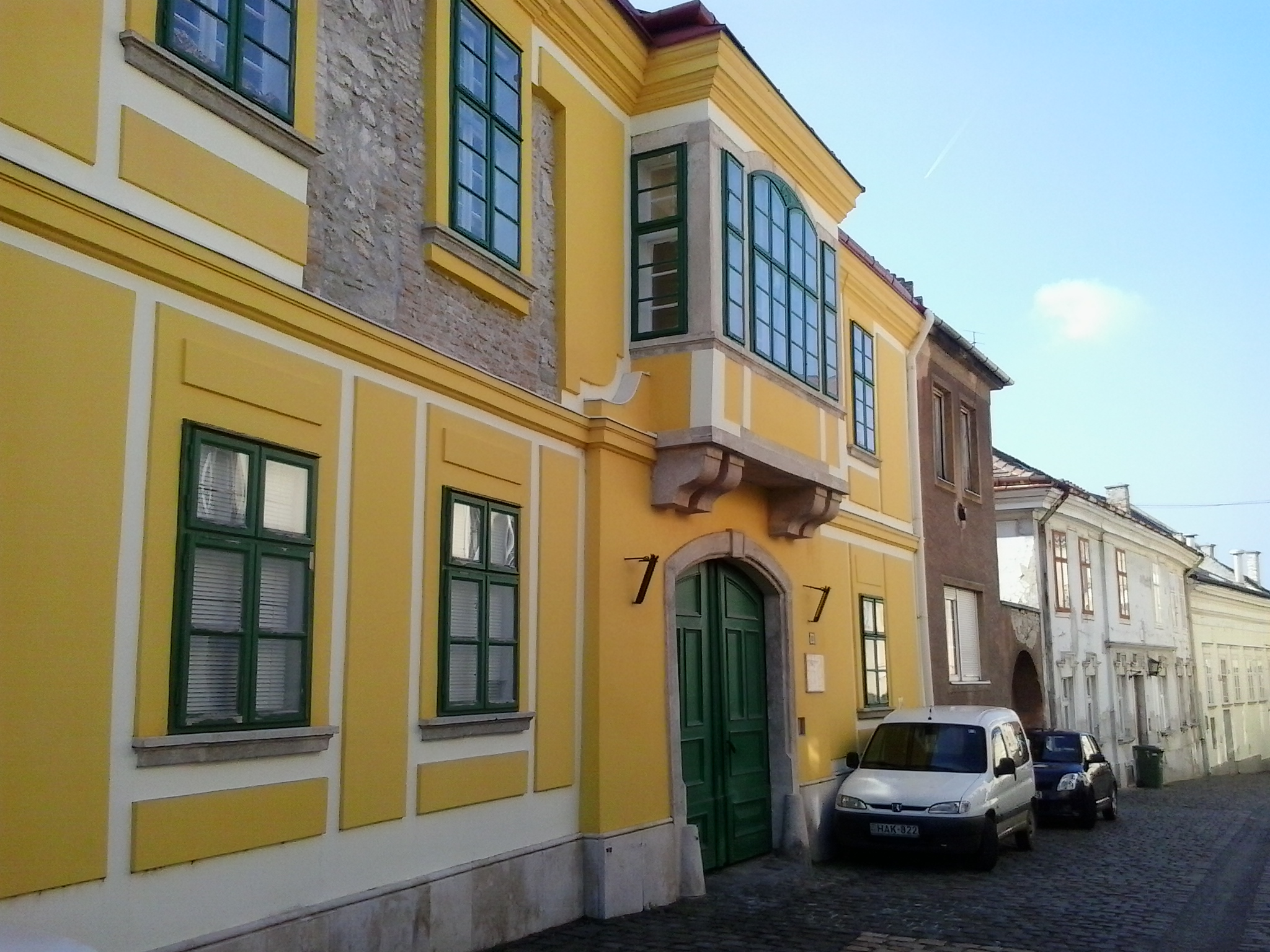 Baroque house, (Arany János - no) Megyeház street, Székesfehérvár, Hungary